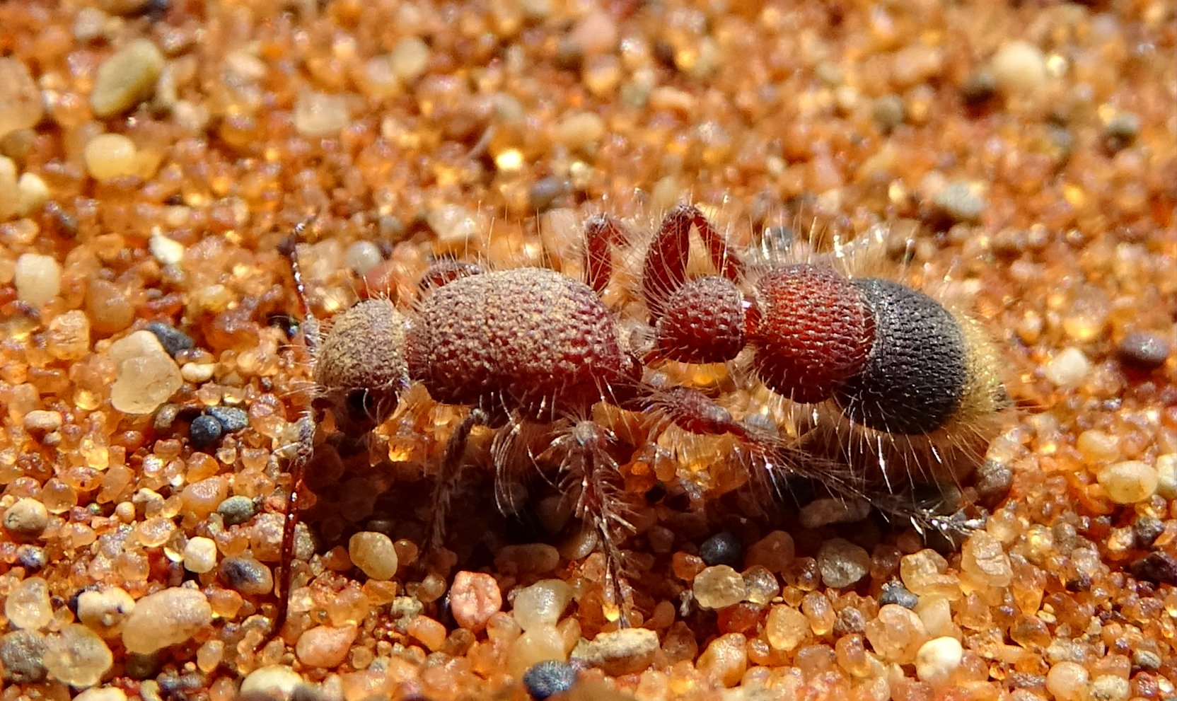 A bradyobaenid wasp (genus Apterogyna) found in the dunes in the Namib-Naukluft National Park in central Namibia.